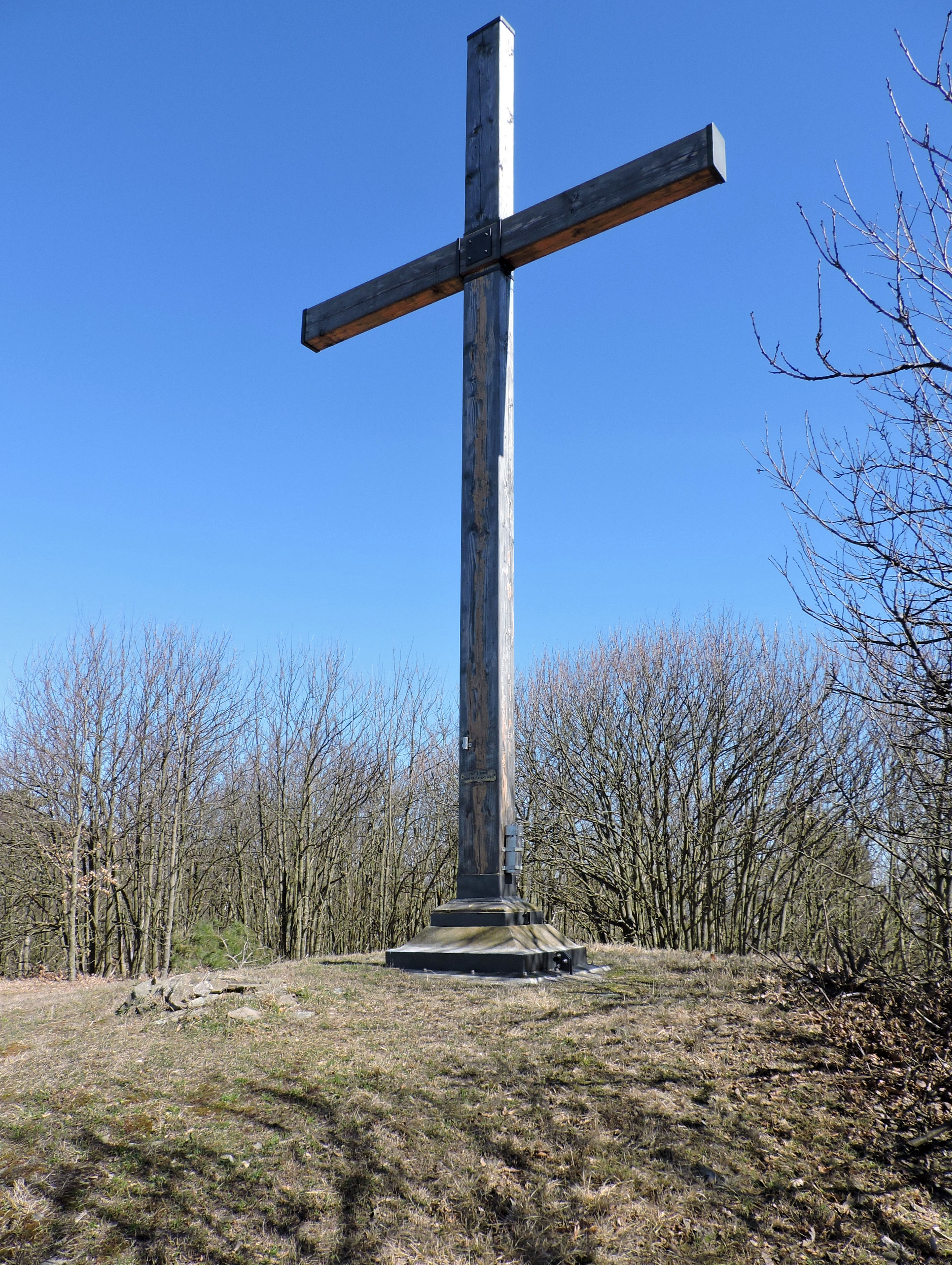 Bric della Croce (SV, Ligurian Prealps): summit cross